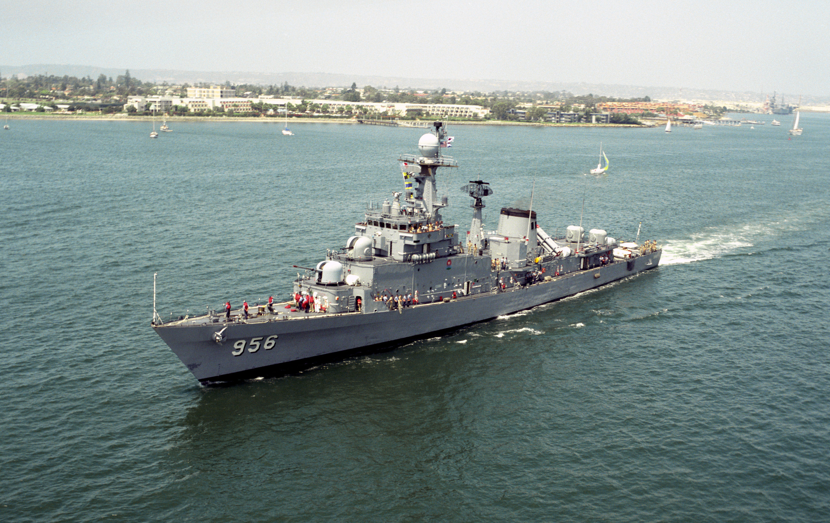 ID: DN-SC-04-15489 Service Depicted: Other Service Operation / Series: RIMPAC 92 A port view of the Ulsan Class Republic of Korea ship (ROK) KYONG BUK (FF 956) sails past San Diego, California (CA). The ship is participating in RIMPAC 92 (Rim of the Pacific Exercise 1992). Location: SAN DIEGO, CALIFORNIA (CA) UNITED STATES OF AMERICA (USA)